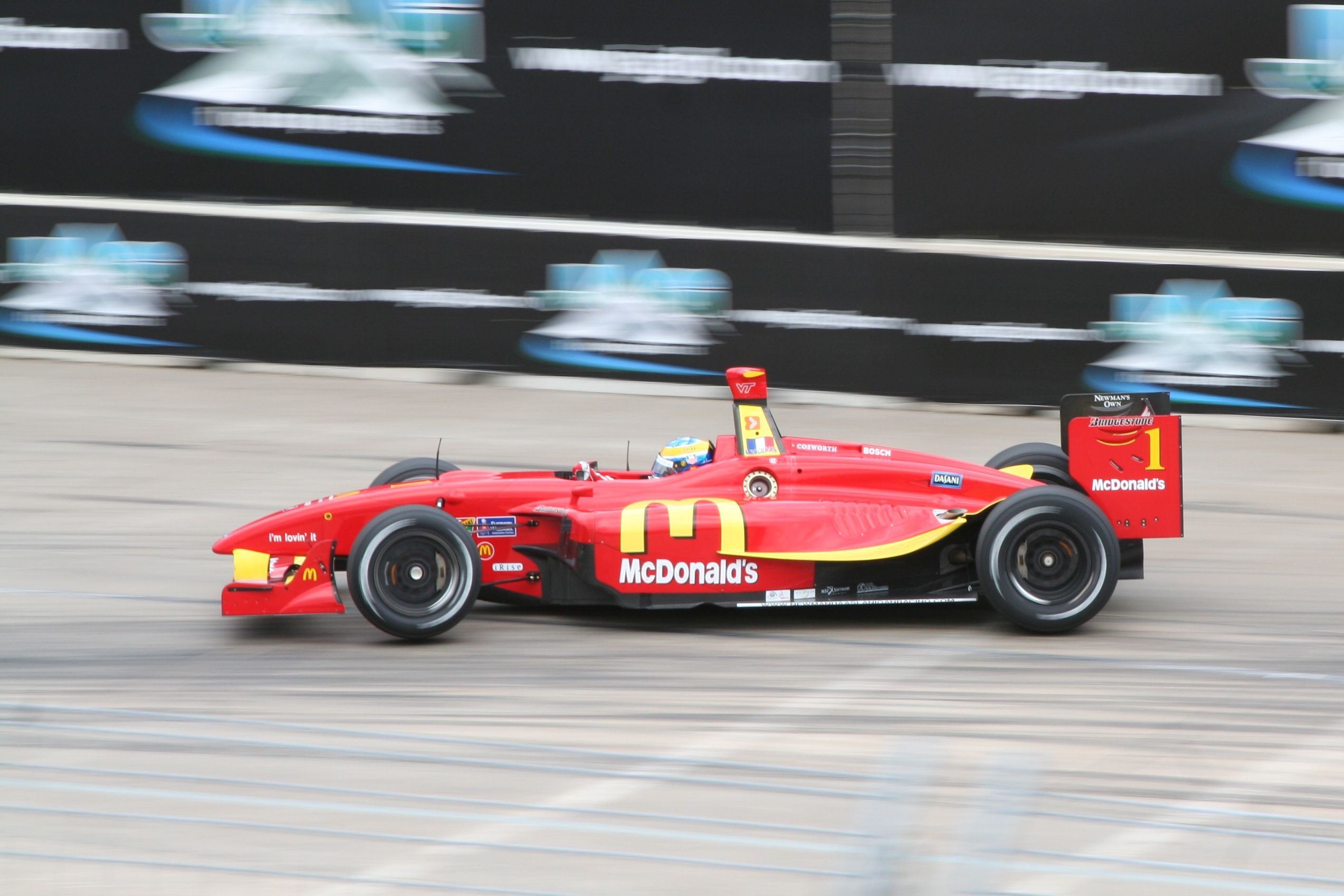 Sébastian Bourdais driving in the Champ Car series at Houston, 2007